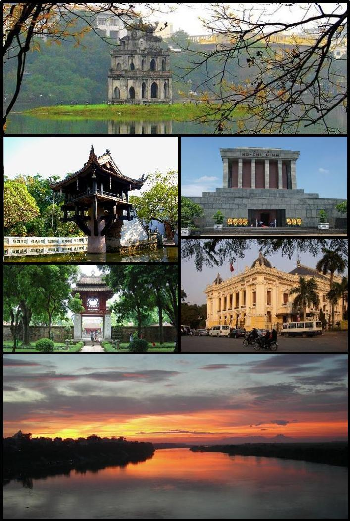 Combined images of landmarks in Hanoi.